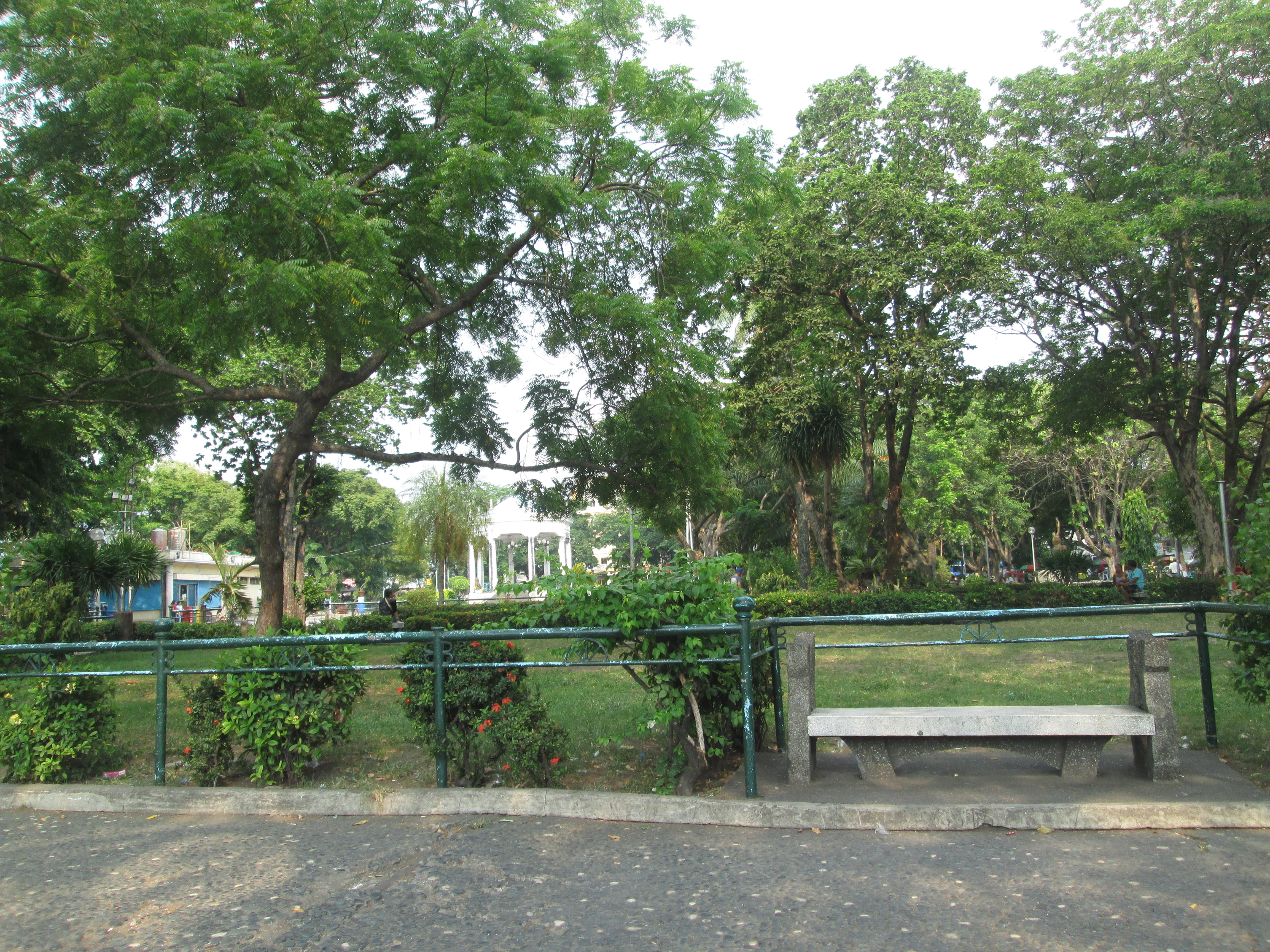 Bacolod Public Plaza